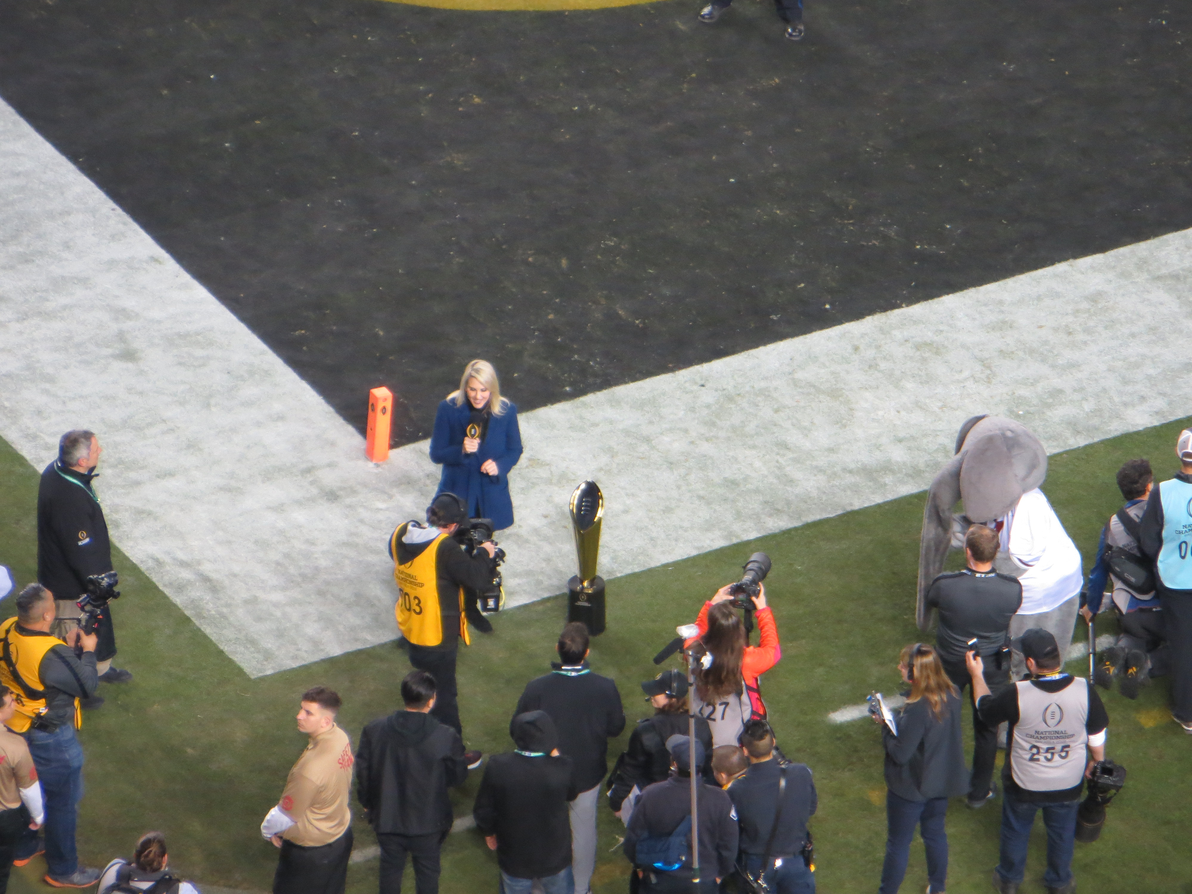 Late in the fourth quarter, one of the sideline reporters shows off the College Football Playoff trophy at the 2019 College Football Playoff National Championship.